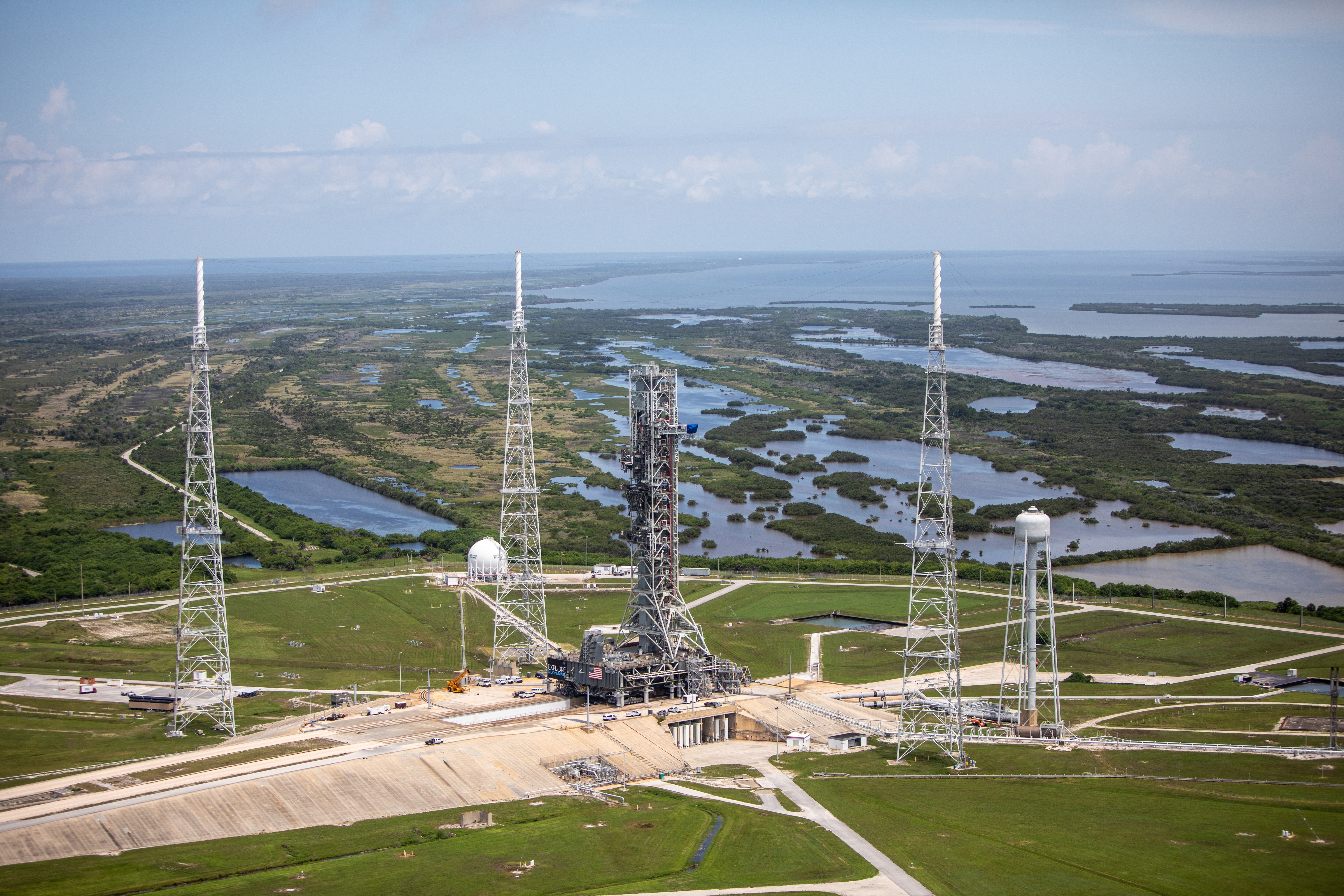 Aerial photograph of Kennedy Space Center's Launch Complex 39B in June 2019, as Mobile Launcher-1 arrives for integrated on-site testing, ahead of the first flights in NASA's Artemis program. The pad will also be used for Northrup Grumman's Omega launch vehicle, which will roll out to the pad using Mobile Launcher Platform-3.